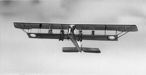 A Sikorsky Ilya Muromets strategic bomber, operated by the Imperial Russian Air Force in World War I.